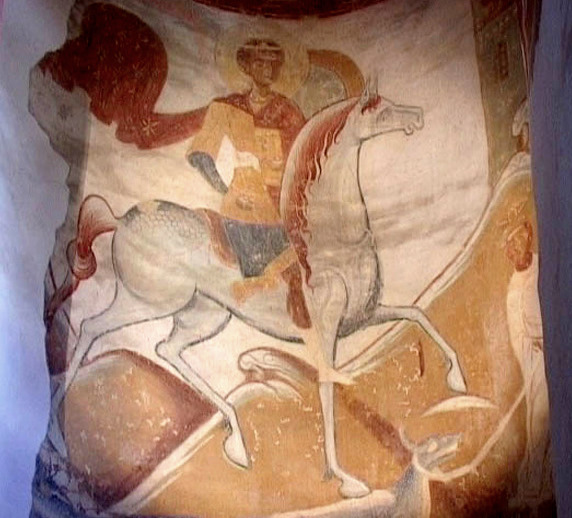 St. George and the Dragon. Fresco from St George's Church in Old Ladoga (late 12th c.)